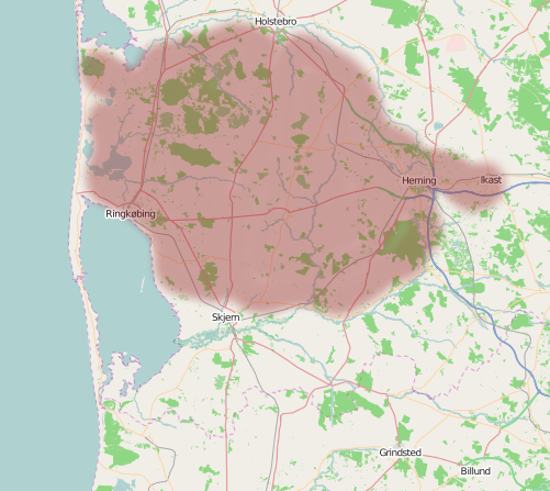 Map of geographic area Skovbjerg Bakkeø in Denmark, on openstreetmaps base.